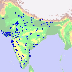 spot distribution map of Sypheotides indicus generated using BirdSpot 3.6